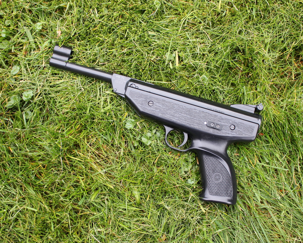 Spring piston break barrel air rifle.